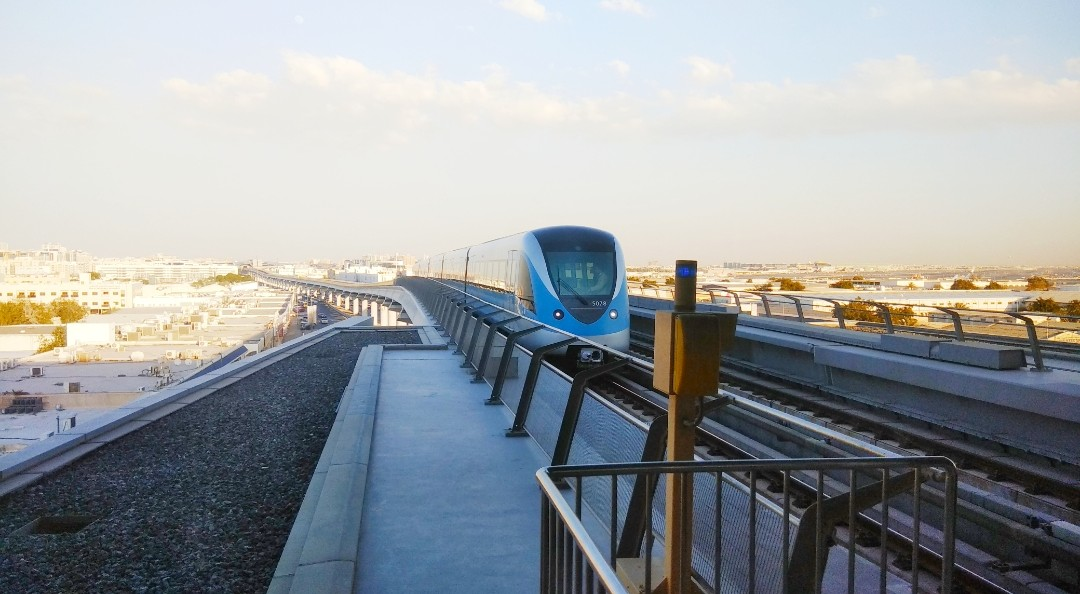 Train arriving at Metro station